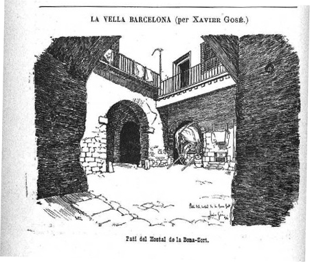 “La vella Barcelona (per Xavier Gosé). Pati del Hostal de la Bona-Sort”. Almanach de L’Esquella de la Torratxa, Barcelona, Any VII (1895), p. 68, b/n.